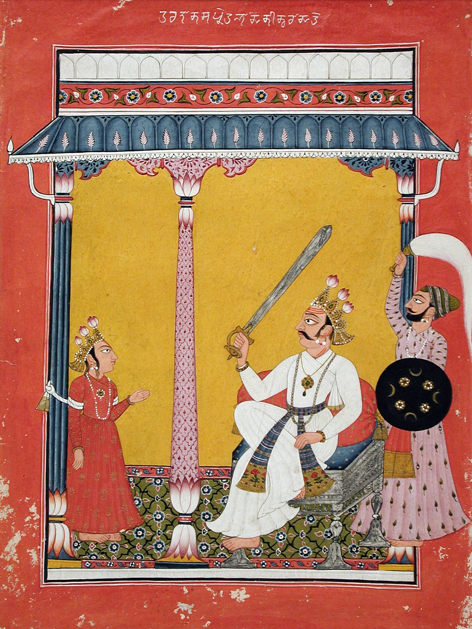 India, Jammu and Kashmir, Mankot, circa 1725 Drawings; watercolors Opaque watercolor, gold, and silver on paper Image: 8 7/8 x 7 7/8 in. (22.54 x 20.0 cm); Sheet: 11 1/4 x 8 1/2 in. (28.58 x 21.59 cm) Gift of Paul F. Walter (M.88.227) South and Southeast Asian Art